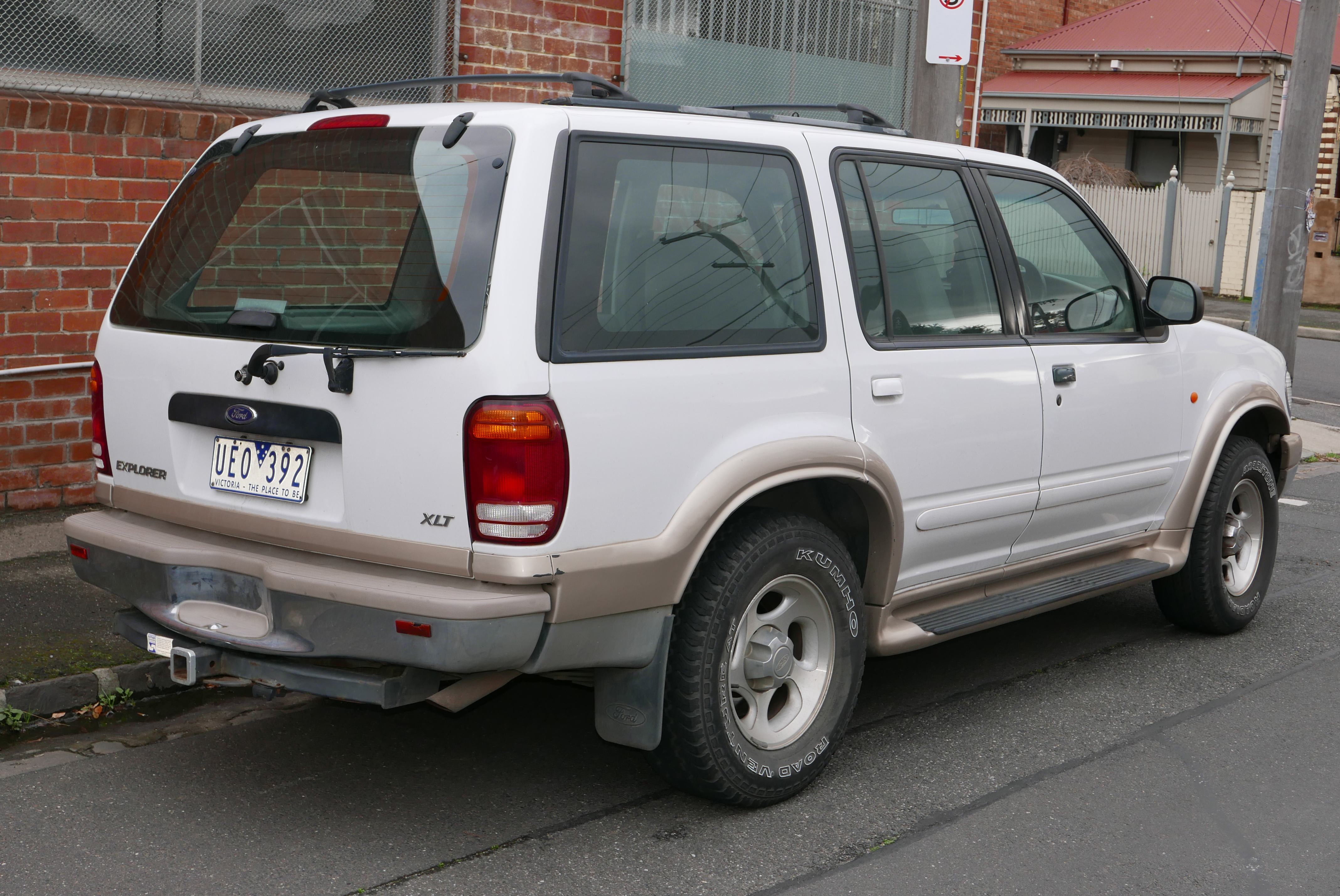 2000 Ford Explorer (US) XLT 5-door wagon. Photographed in Brunswick, Victoria, Australia. Vehicle registration enquiry resultsJurisdictionVictoriaRegistrationUEO392Chassis code1FMZU73E8YZB67656Engine codeB67656Compliance date2000-03Year of manufacture2000